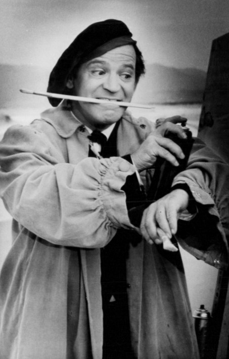 Photo of "Professor" Irwin Corey delivering a monologue as an artist from the television program The Lively Ones.